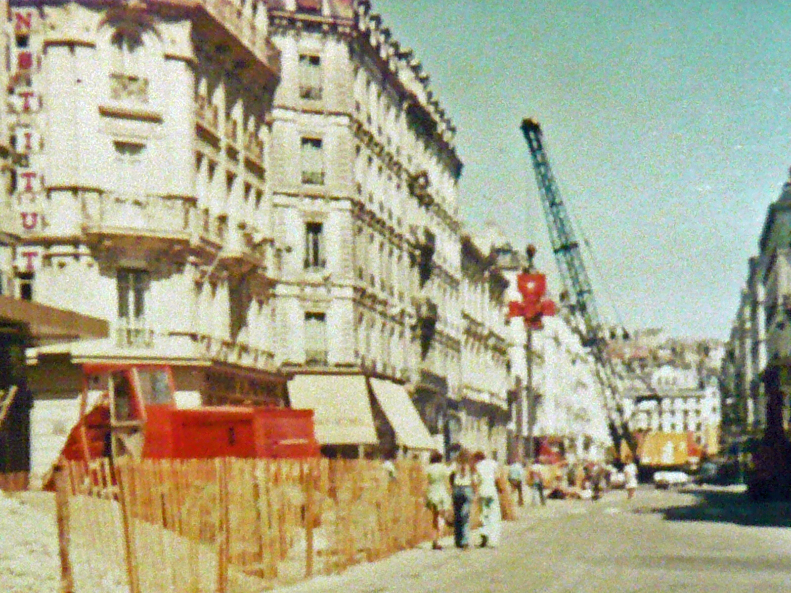 Construction of the Lyon Metro.